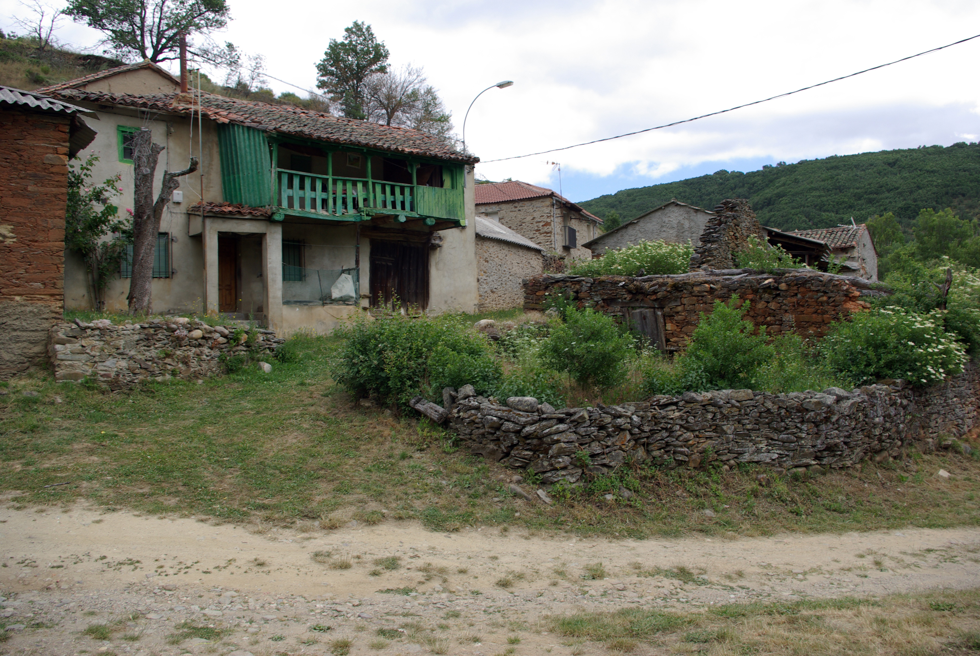 La Omañuela (Riello, León, Spain)